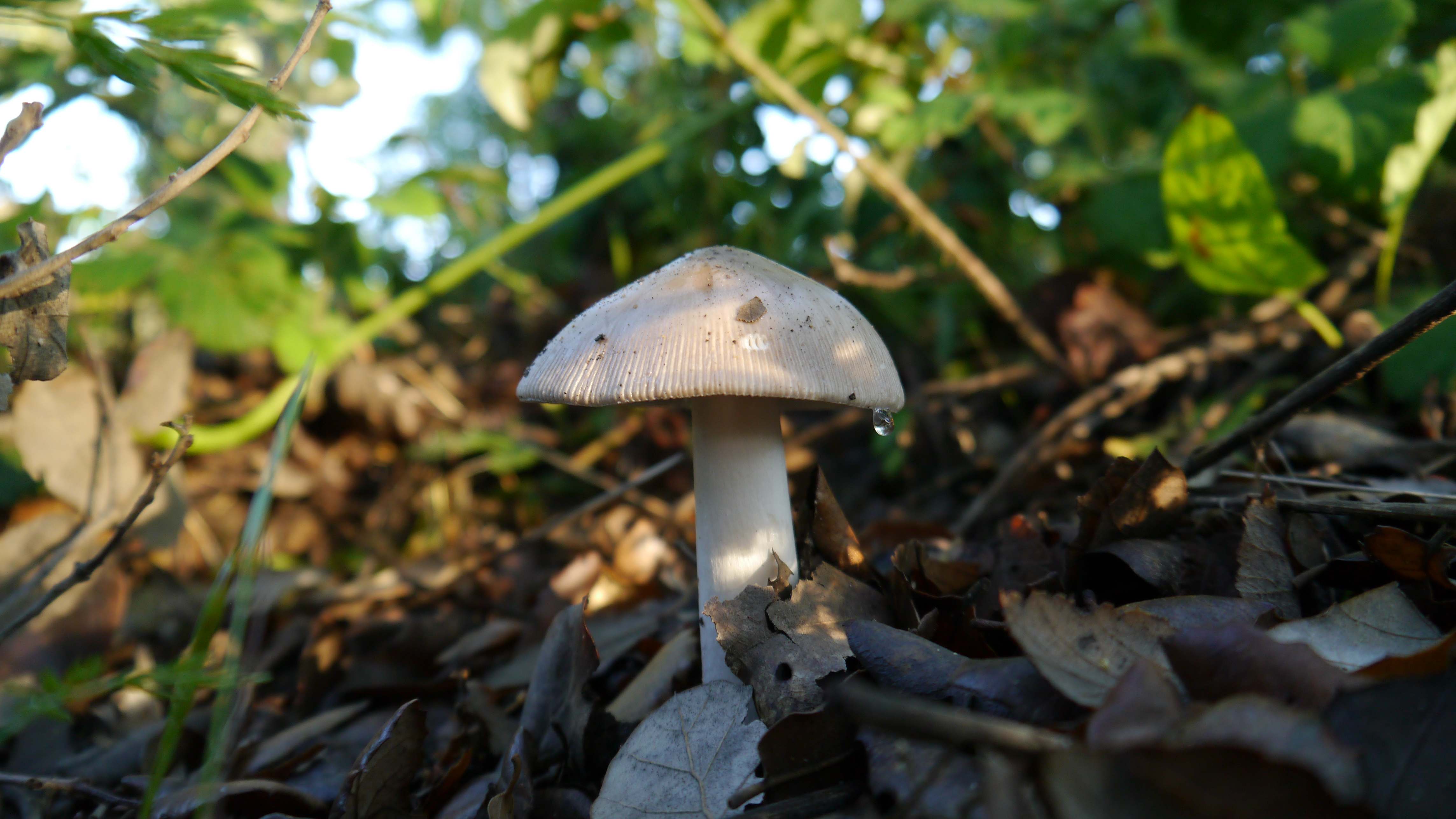 Amanita lividopallescens. Sainte-Maxime, Var, France.